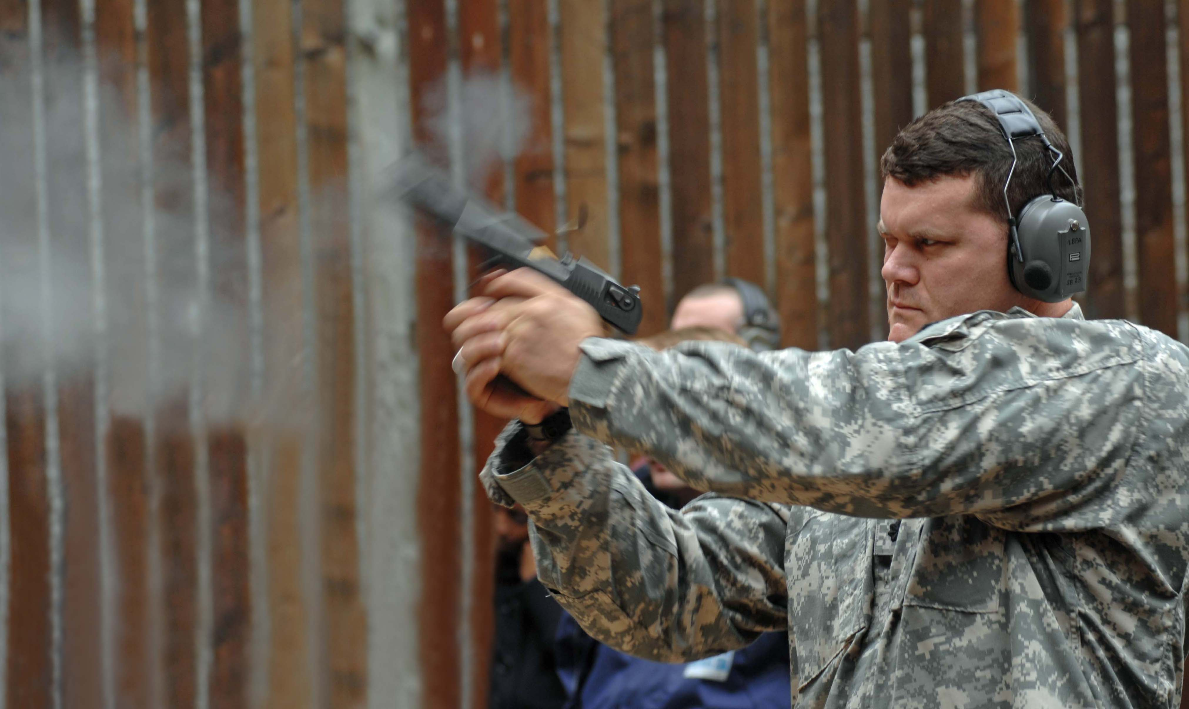 Lt. Col. Kevin Hutchison, the U.S. Army Garrison Kaiserslautern commander, shoots his second of three shots with a 44-Magnum pistol Oct. 6 during the Leader's Round of The Begegnug von Führungskräften Mit Vergleichsschiessen, or Gathering of Leaders with Competitive Shooting, at the German Police Academy in Enkenbach-Alsenborn, Germany. Hutchison scored a 9 out of 10 possible points in this contest.